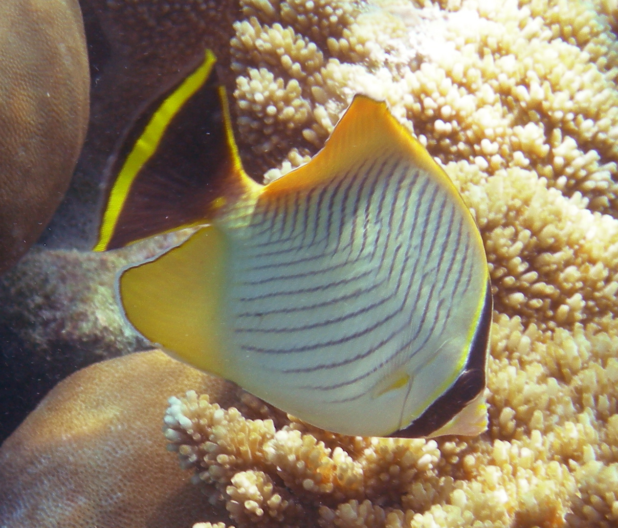 Chevron butterflyfish (Chaetodon trifascialis)